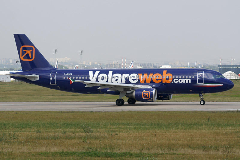 Airbus A320 F-OHFR